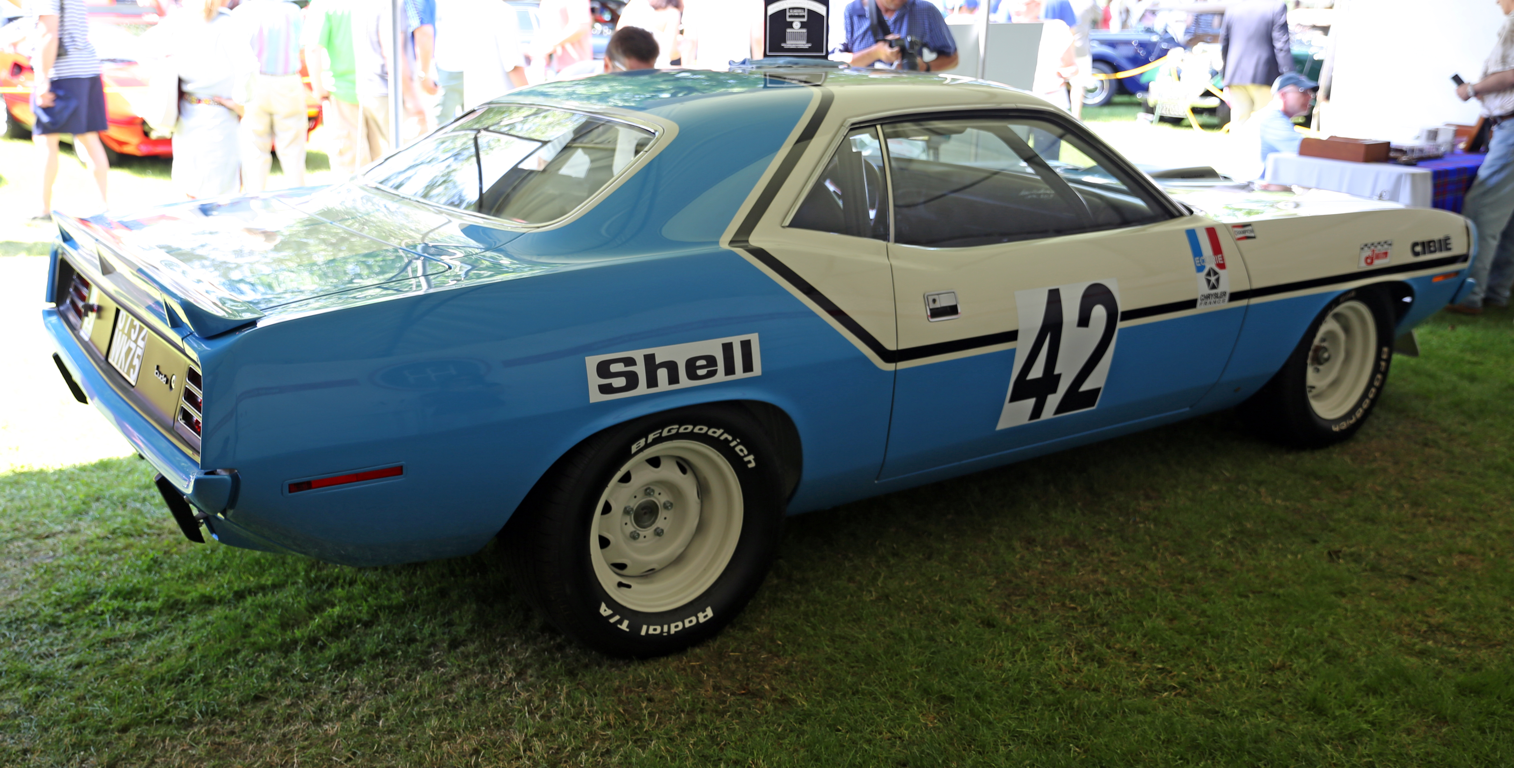 1970 Plymouth Hemi Cuda at the 2013 Greenwich Concours d'Elegance. This was raced until 1975 in France, originally by Chrysler of France as a works car, and is "the most decorated 'Cuda ever".